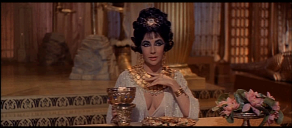 Cropped screenshot of Elizabeth Taylor from the trailer for the film Cleopatra.